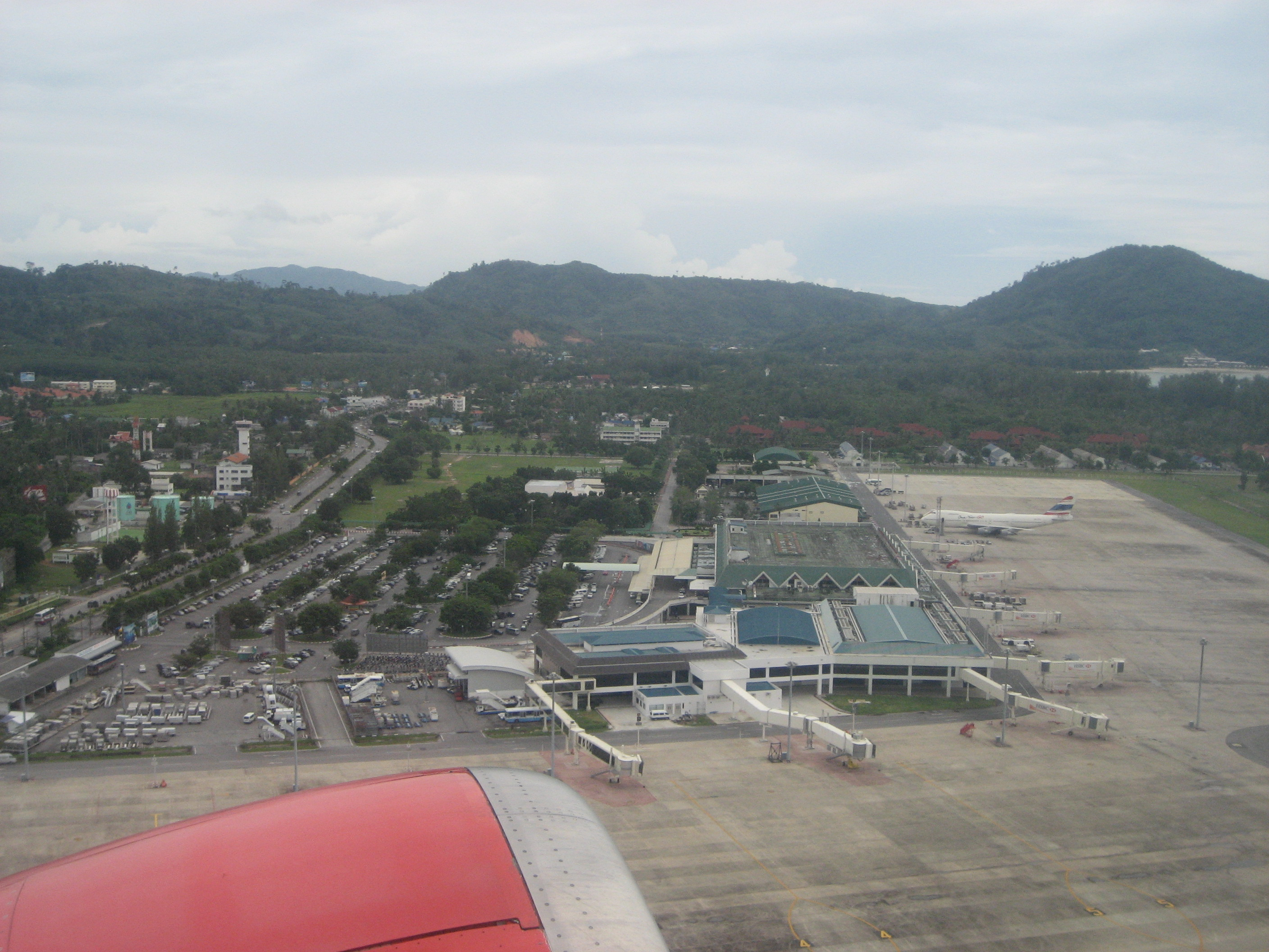 phuket international airport aerial view